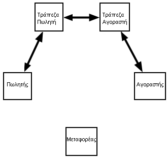 Seller p bill of lading for payment from buyer's bank. Buyer's bank exchanges bill of lading for payment from the buyer.